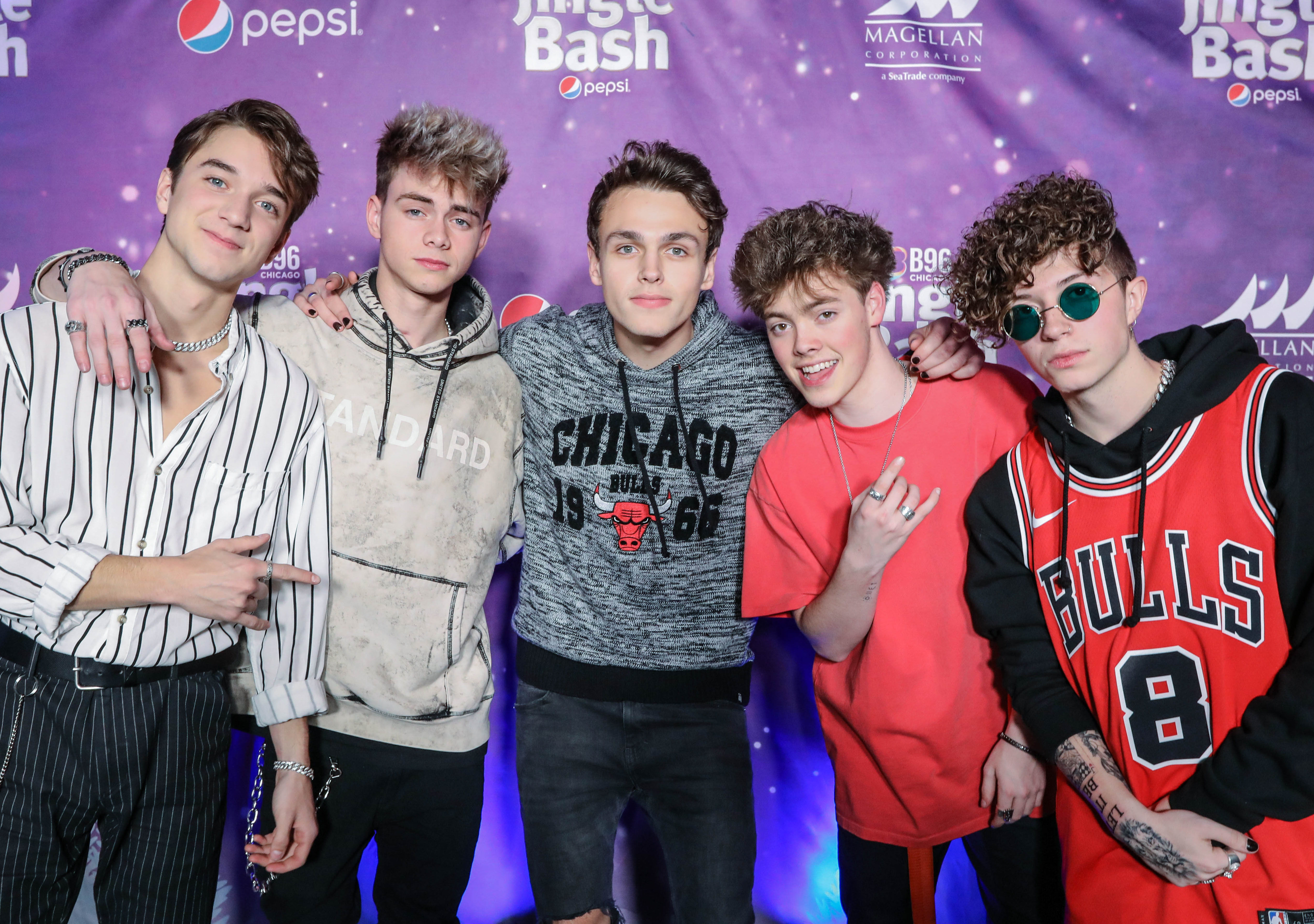 Why Don't We at B96 Pepsi Jingle Bash 2018.